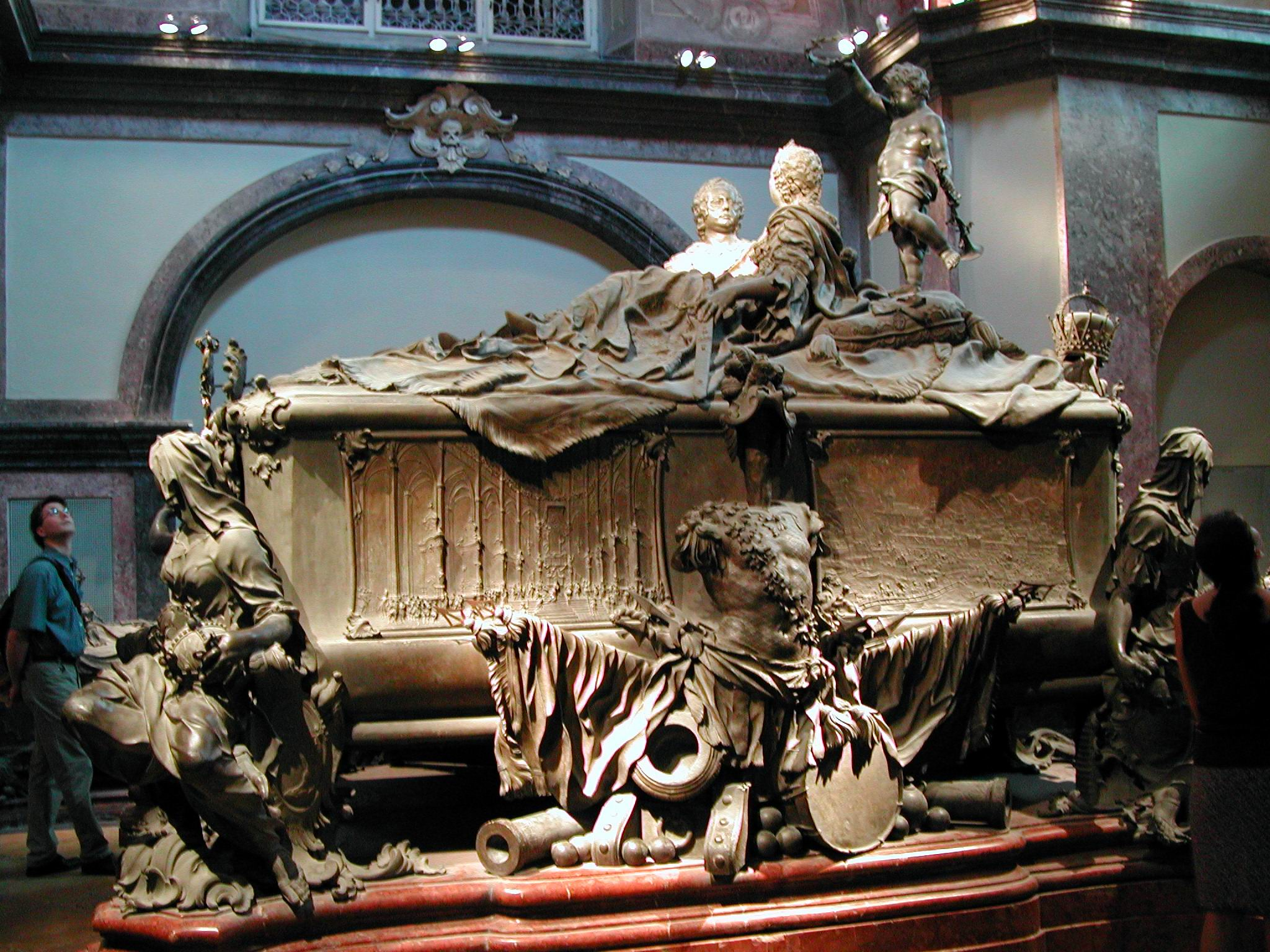 Austria, Vienna, Capuchin Church, Imperial Crypt